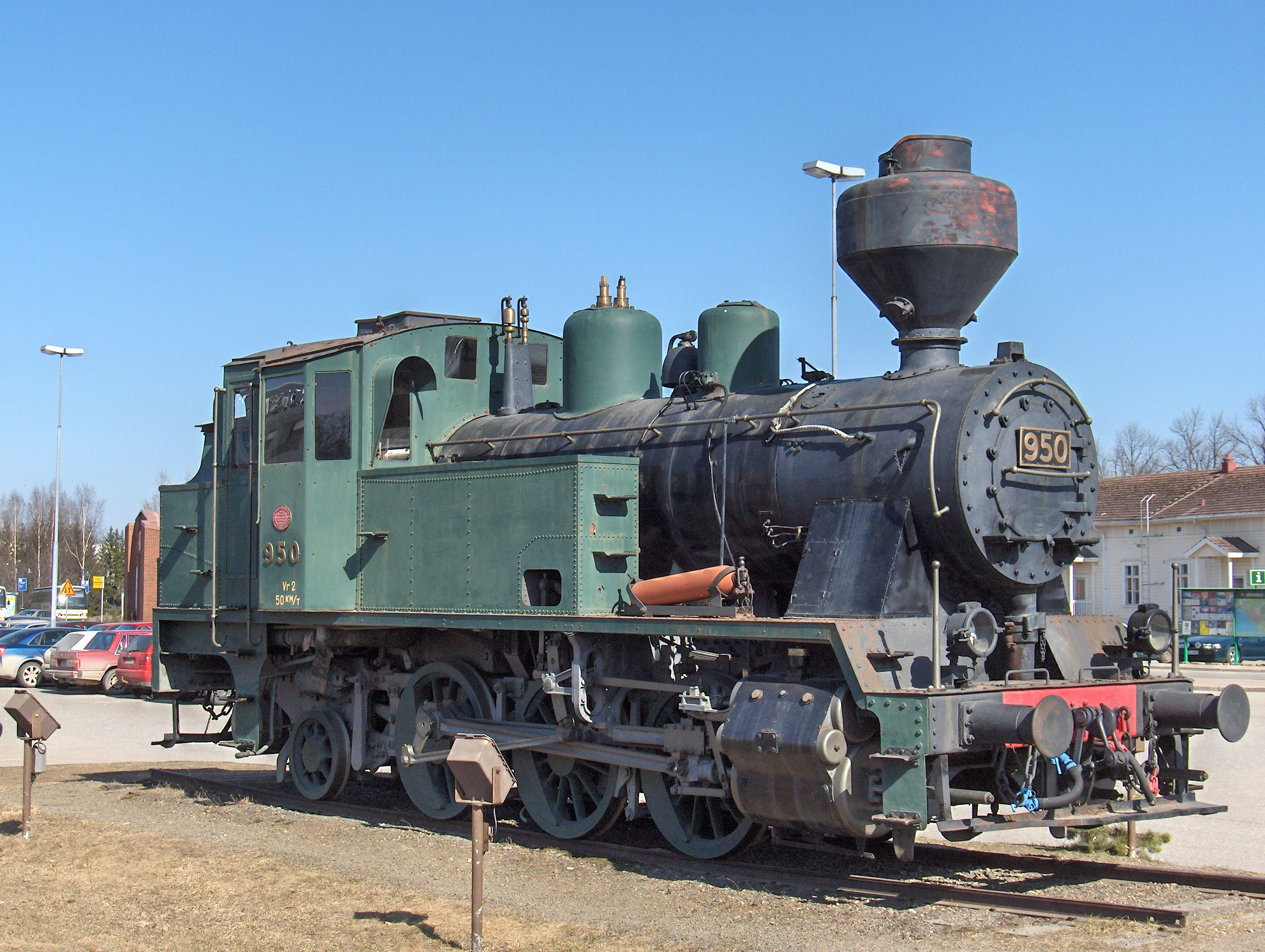 Preserved VR Class Vr2 steam locomotive no. 950, outside Joensuu railway station in Joensuu, Finland